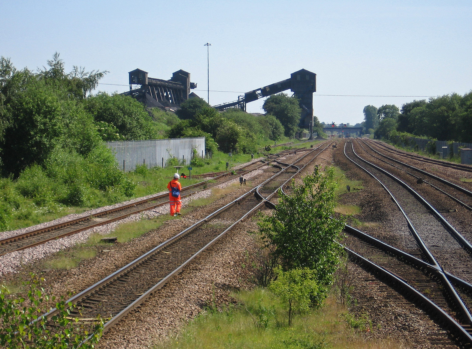 Hatfield - Colliery from station footbridge